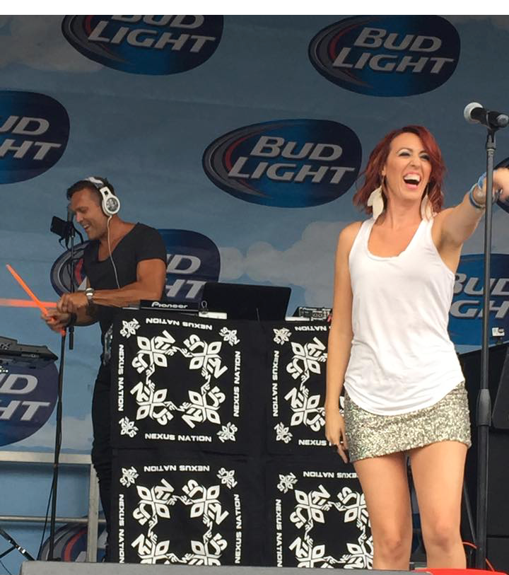 (We Are) Nexus Perform at Market Days Street Fest, 2015 (Chicago, IL)